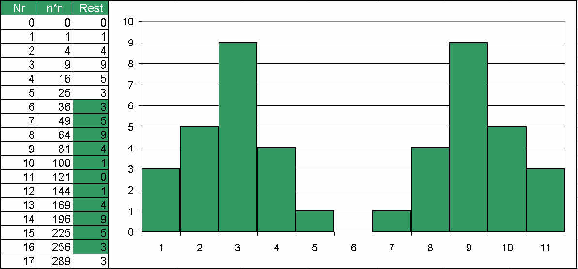 quadratic residual diffusor - example 11 wells